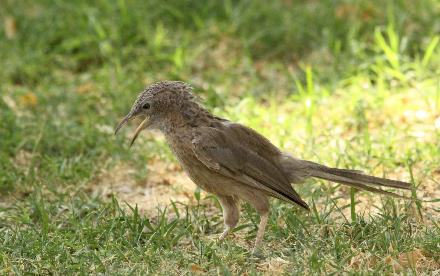 Arabian Babbler photographed at Al Ain, Abu Dhabi, UAE